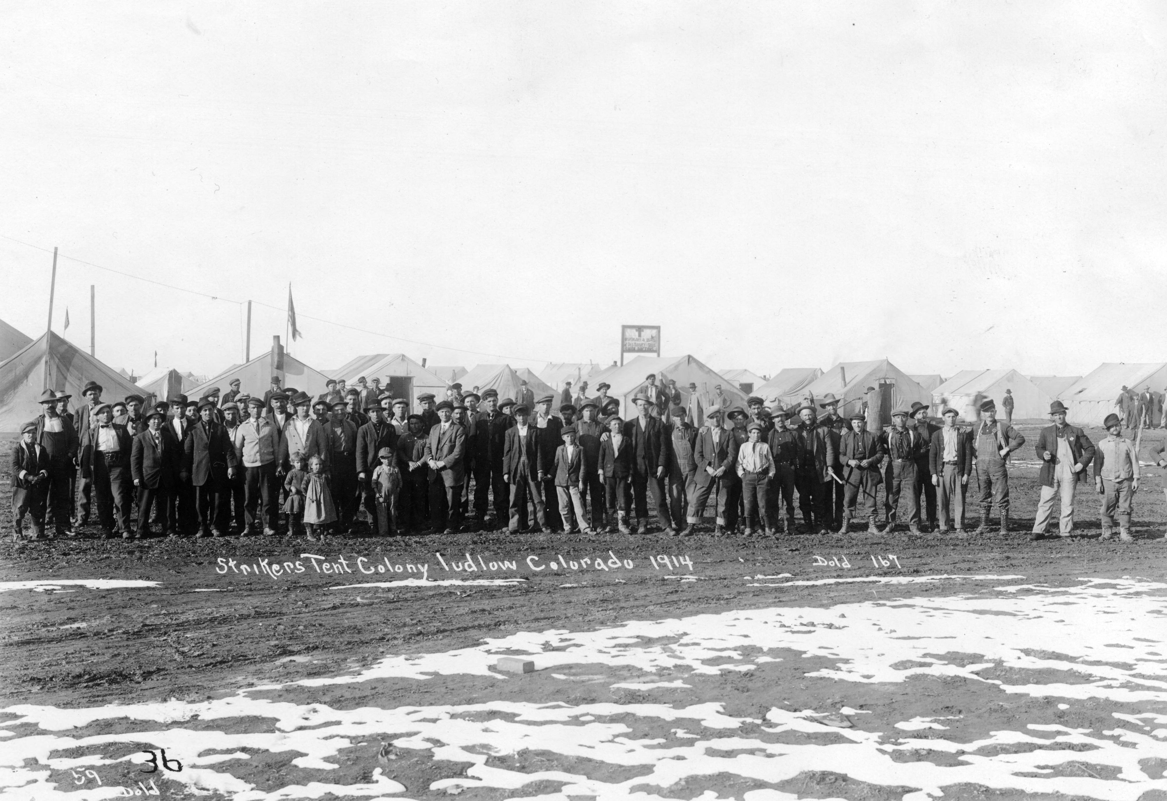 Credit: Western History/Genealogy Department, Denver Public Library. DPL claims rights to this image but allows reproduction under fair use guidelines, including educational purposes. from: Summary from LOC site: Portrait of men, boys, and girls at the UMW camp for coal miners on strike against CF&I in Ludlow, Las Animas County, Colorado; sign on canvas tent behind the crowd reads: "Dispensary and office of Drs. Harvey and Davis Union Doctors." Image from 1914